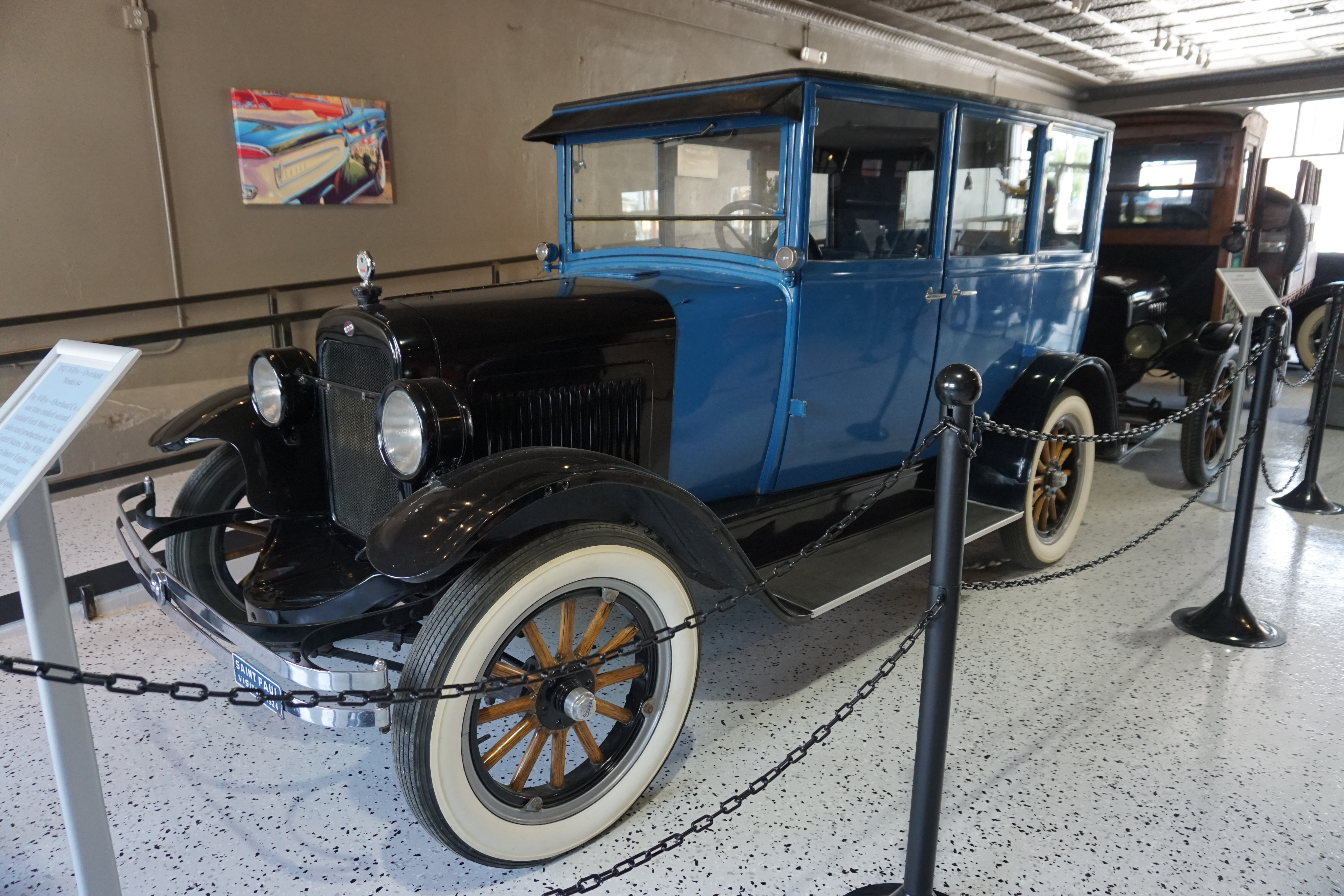 A 1923 Willys-Overland Model 64 at the Vintage Car Museum & Event Center in Weatherford, Texas (United States).